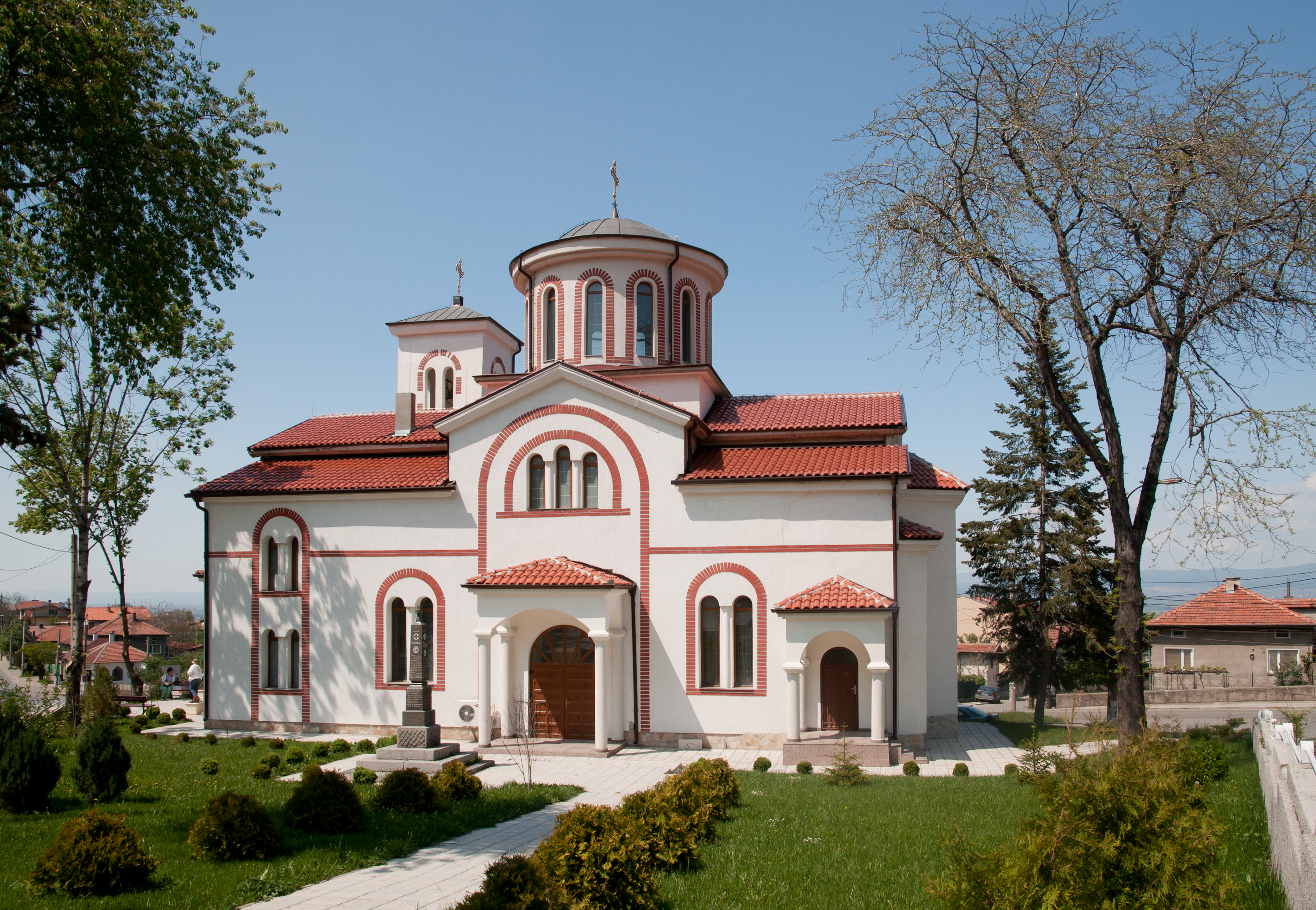 St Athanasius Church in Lozen village, Sofia Province, Bulgaria.